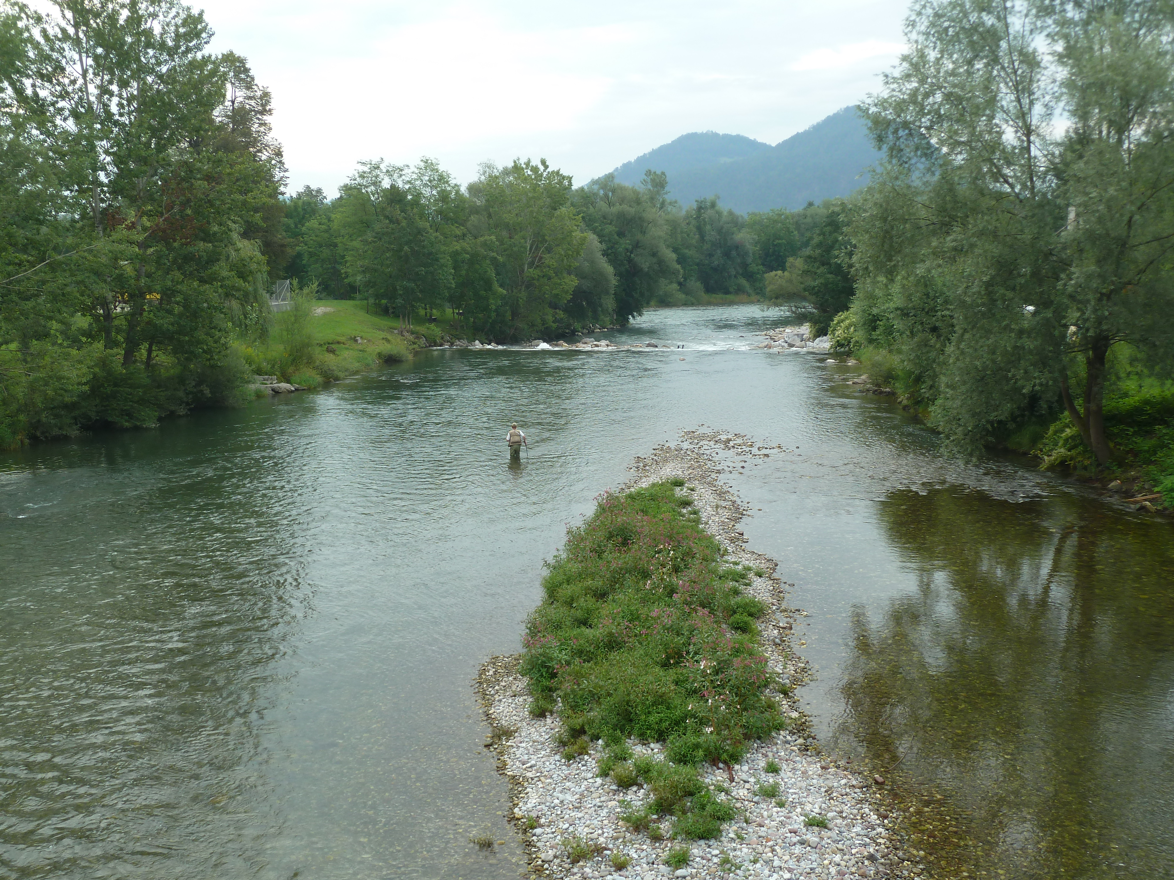 Sora River in Medvode towards the confluence with the Sava River